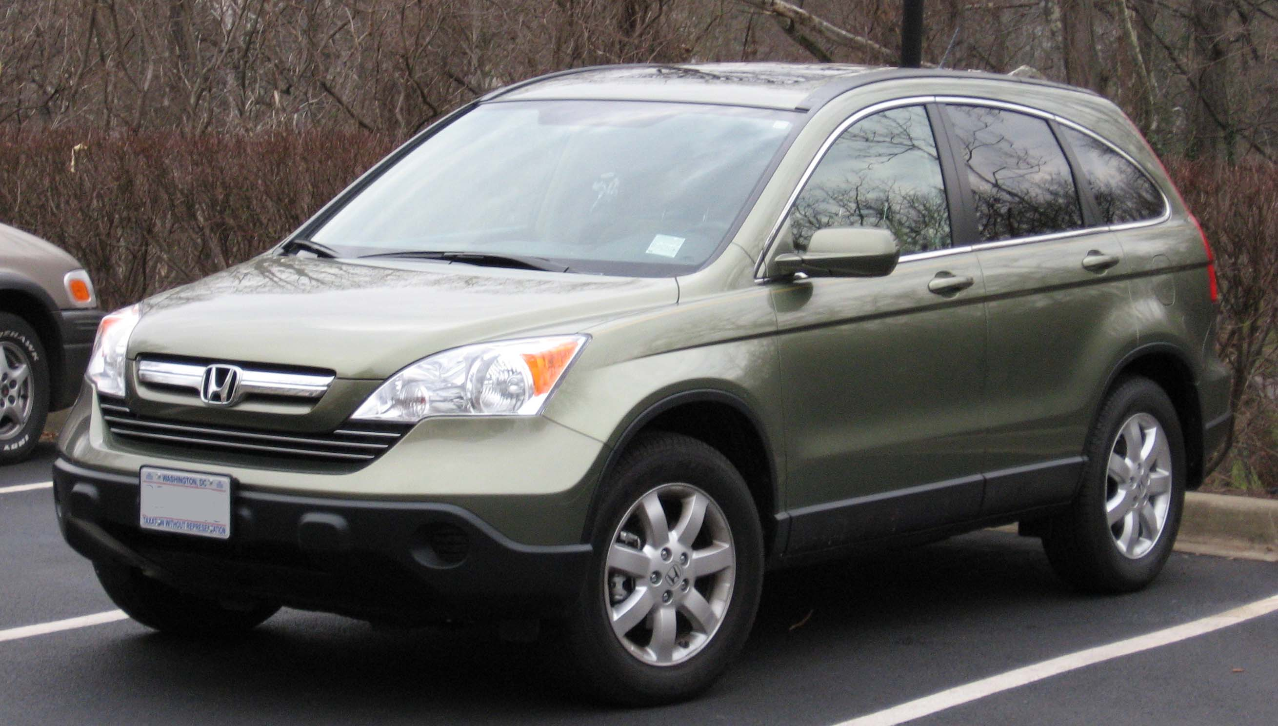 2007 Honda CR-V EX photographed in USA.